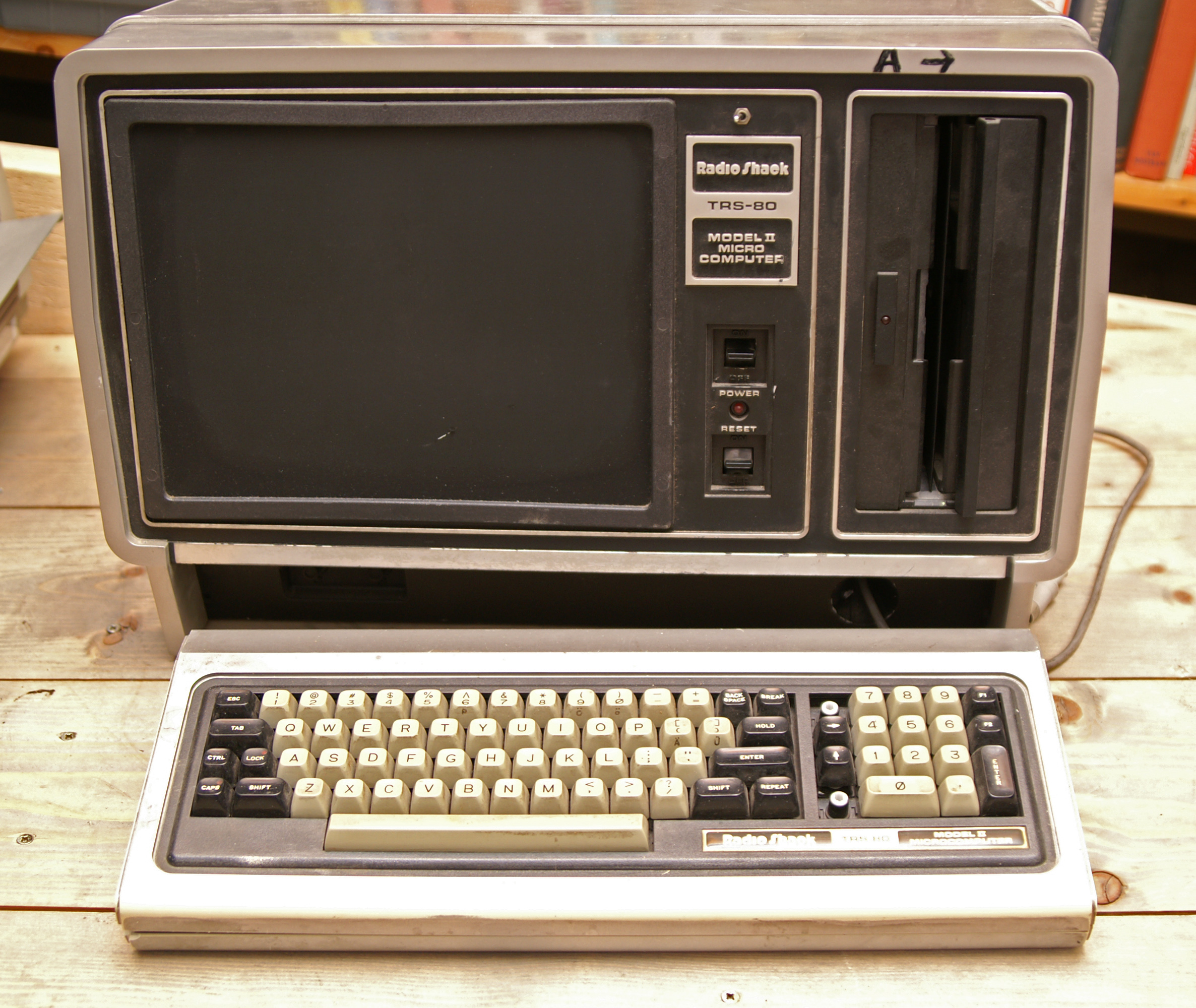 Radio Shack TRS-80 - Excursion of the Wikipedia-regular's table Munich to the Society of Historical computers association on 21st January 2007